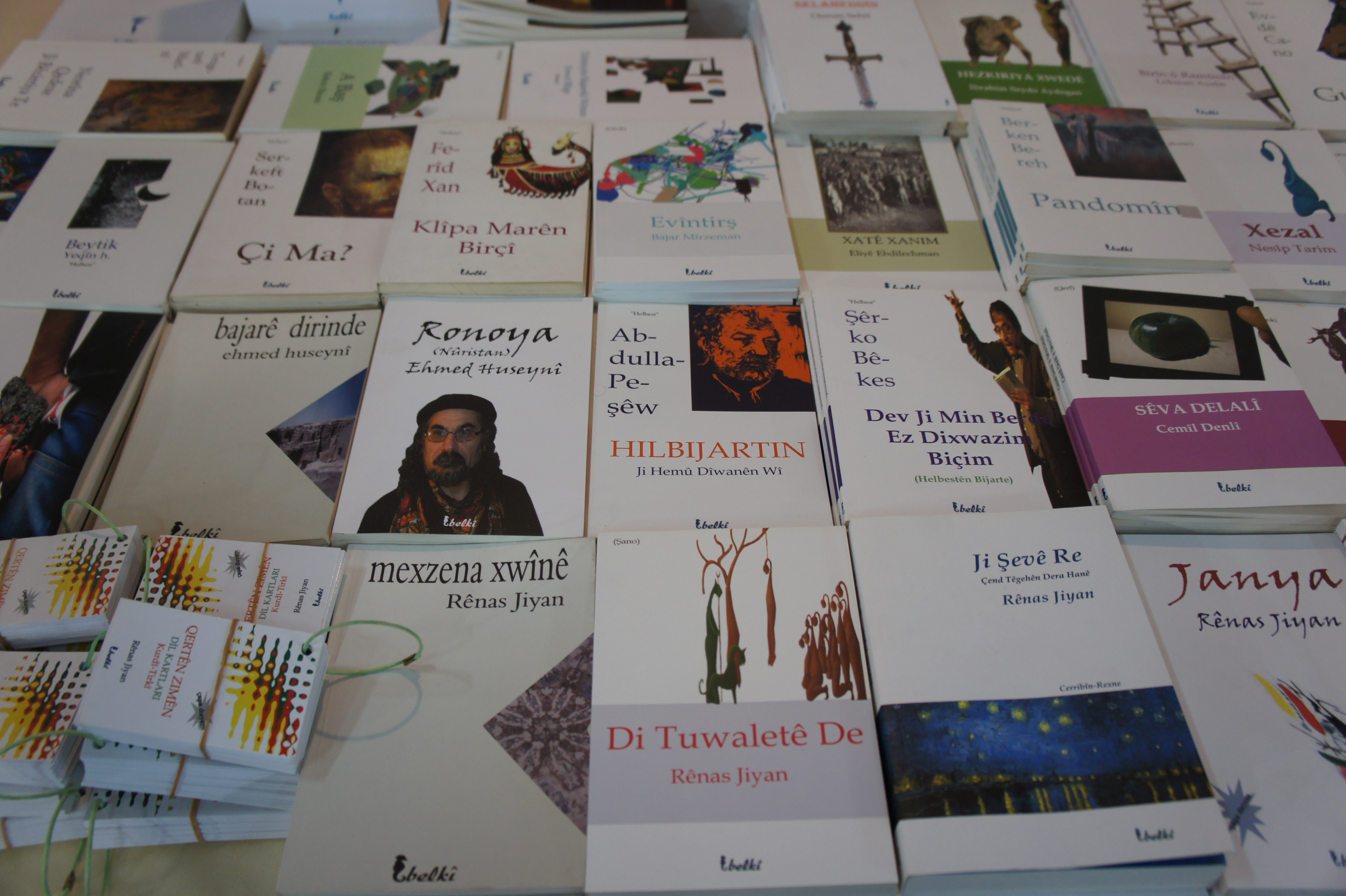 3rd edition of the Diyarbakir Book Fair, 22-27 May 2012. Detail from a stand with books published in Kurdish. Kurdî: 3'emîn Pêshangeha Pirtûkan a Amedê, 22-27 Gulan 2012, ji standa Weshanên Belkî.